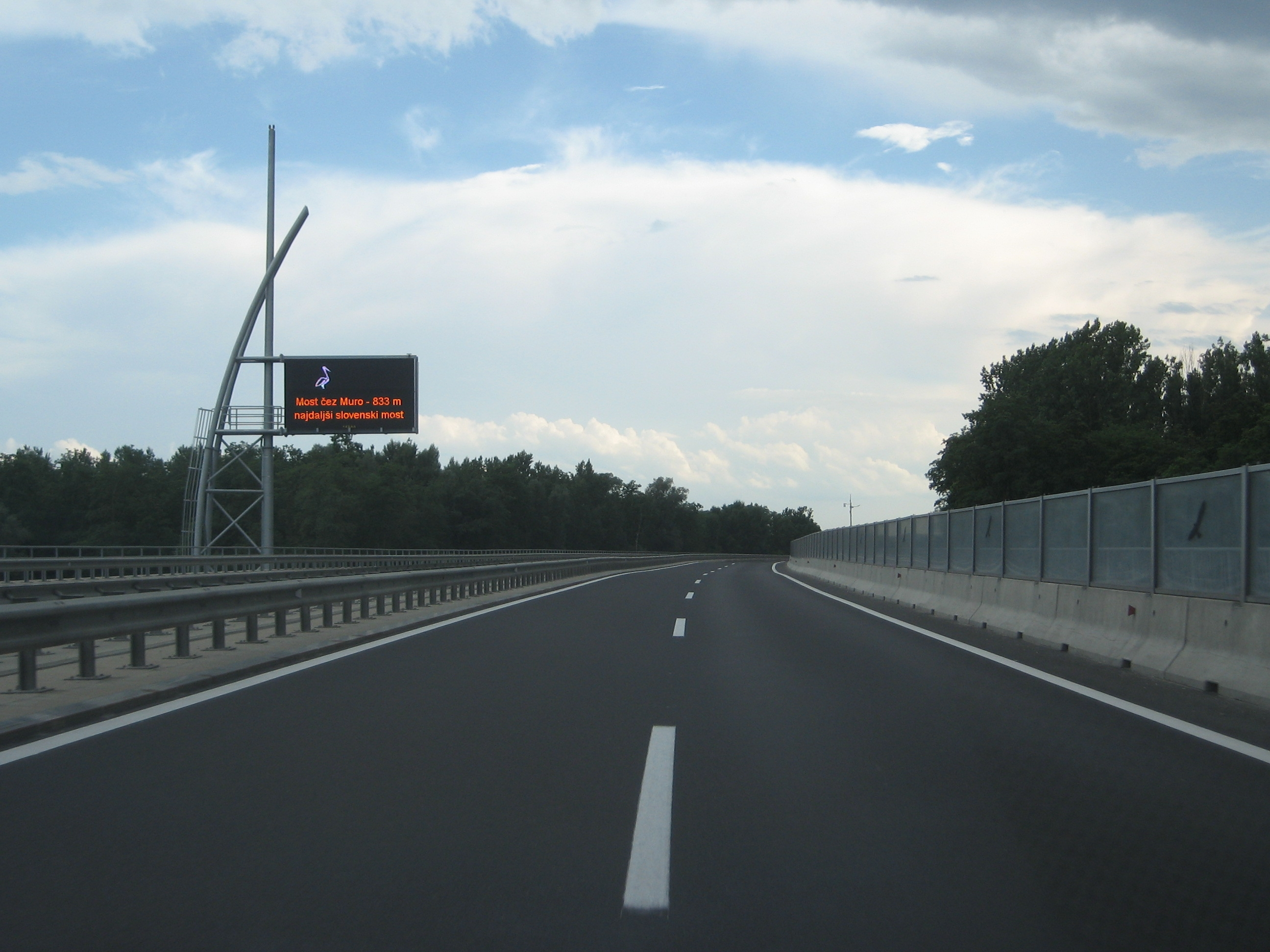 Highway bridge over the Mura river on the A5 highway, Slovenia - the inscription reads: "Bridge over the Mura. The longest Slovene bridge."